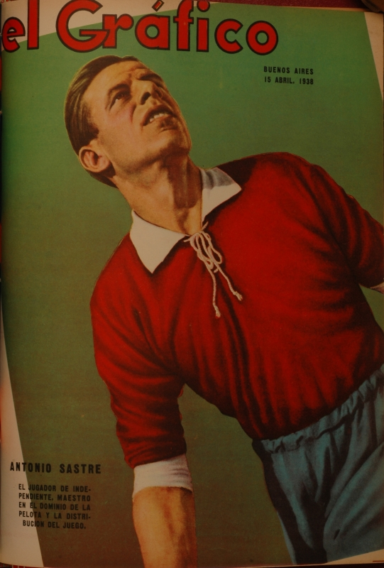 Club A. Independiente forward Antonio Sastre